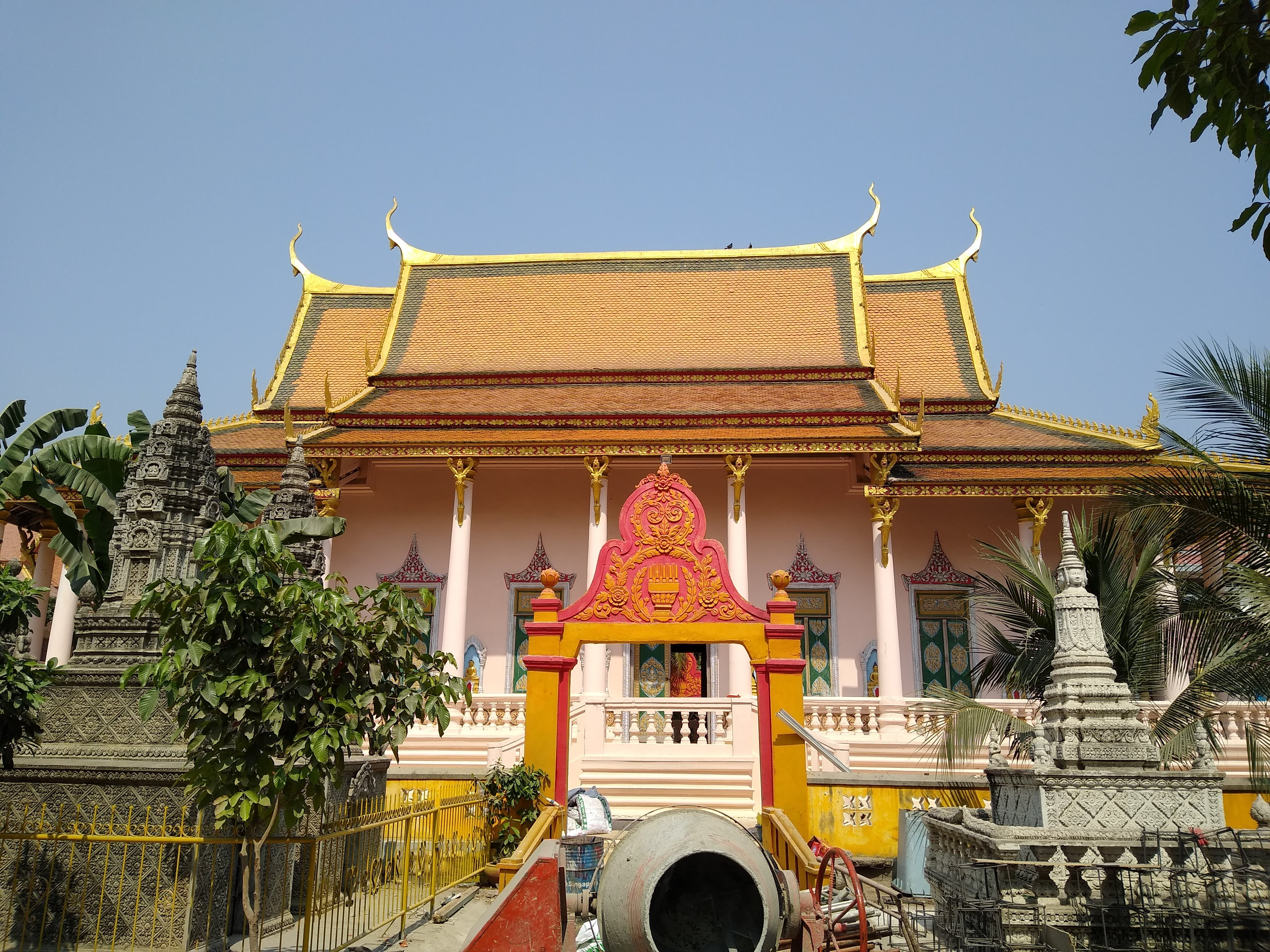 Saravoan Techo Pagoda (Wat Saravan - វត្តសារាវ័ន្តតេជោ) in Phnom Penh.